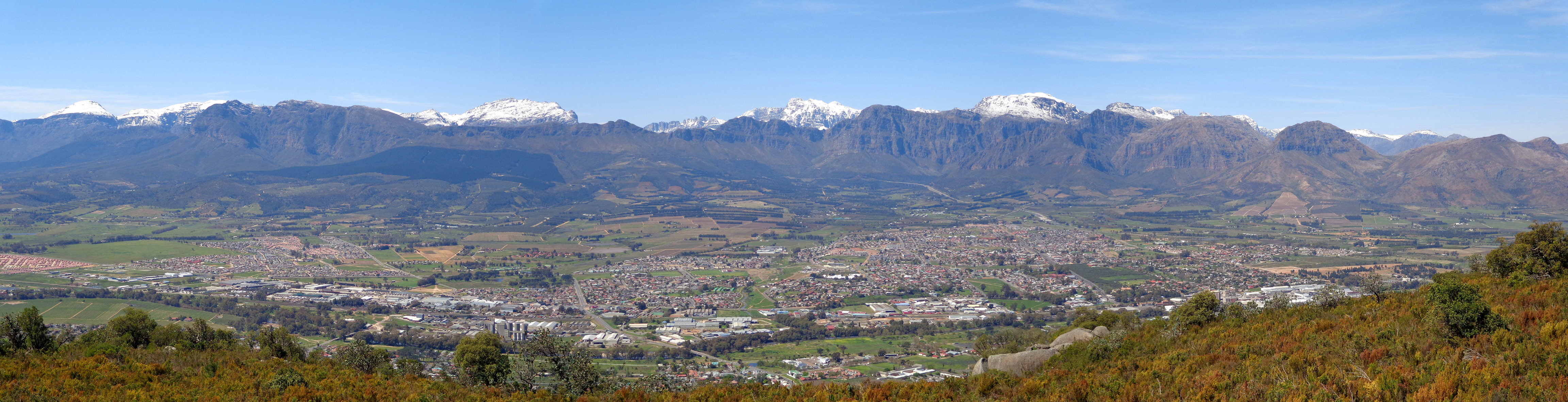 Paarl from the summit of Paarl Mountain, looking across to the Klein-Drakenstein and Du Toitskloof Mountains